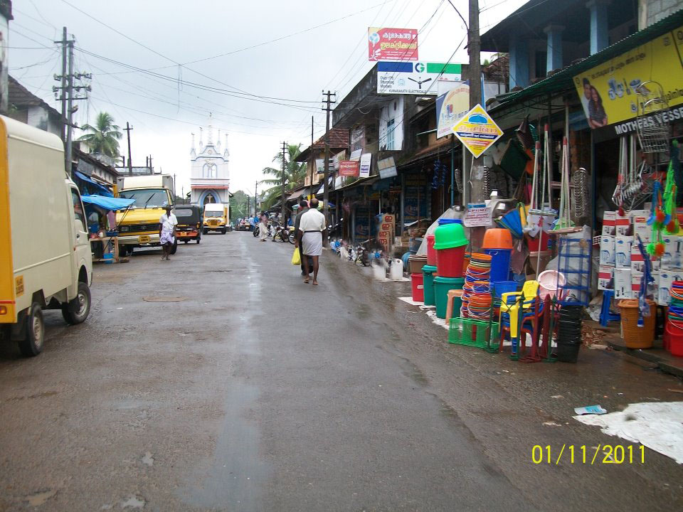 Thalayoalaparambu town